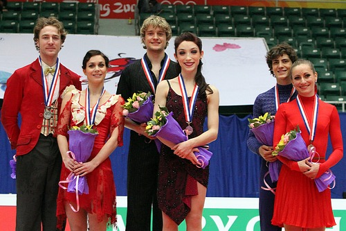 The ice dancing podium at the 2010-2011 Grand Prix of Figure Skating Final. From left: Nathalie Péchalat / Fabian Bourzat (2nd), Meryl Davis / Charlie White (1st), Vanessa Crone / Paul Poirier (3rd).